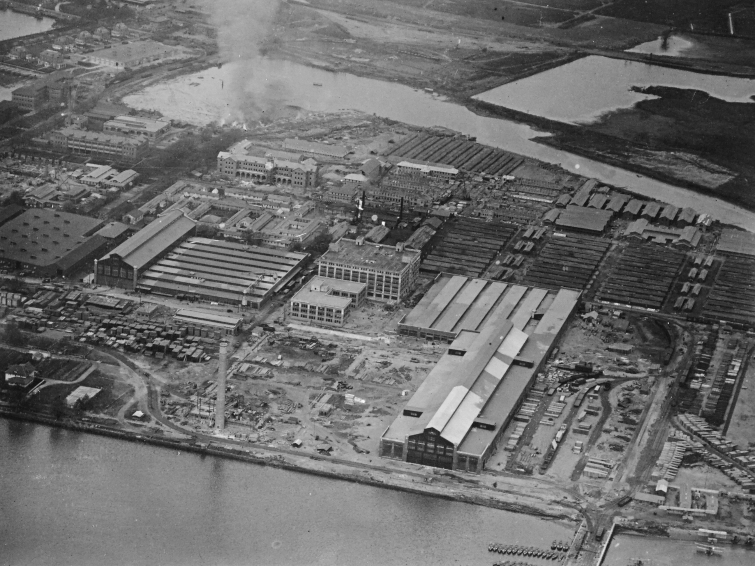 Aerial view of the U.S. Navy Naval Aircraft Factory, Philadelphia, Pennsylvania (USA), photographed from an F-5L aircraft, 14 November 1918.